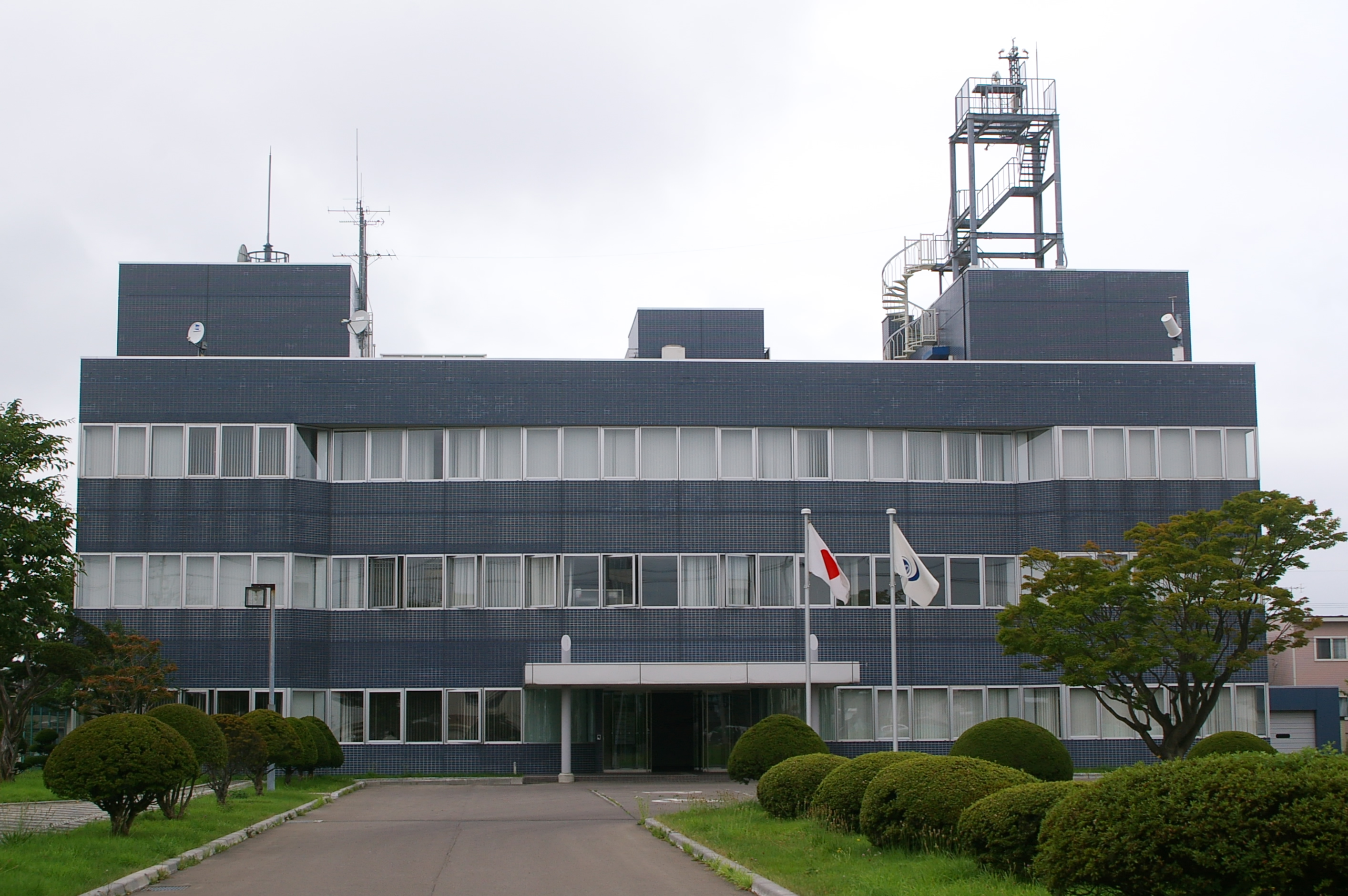 Photograph of Hakodate Marine Observatory, one of meteorogical observatories of Japan Meteorological Agency in Hakodate, Hokkaido, Japan.